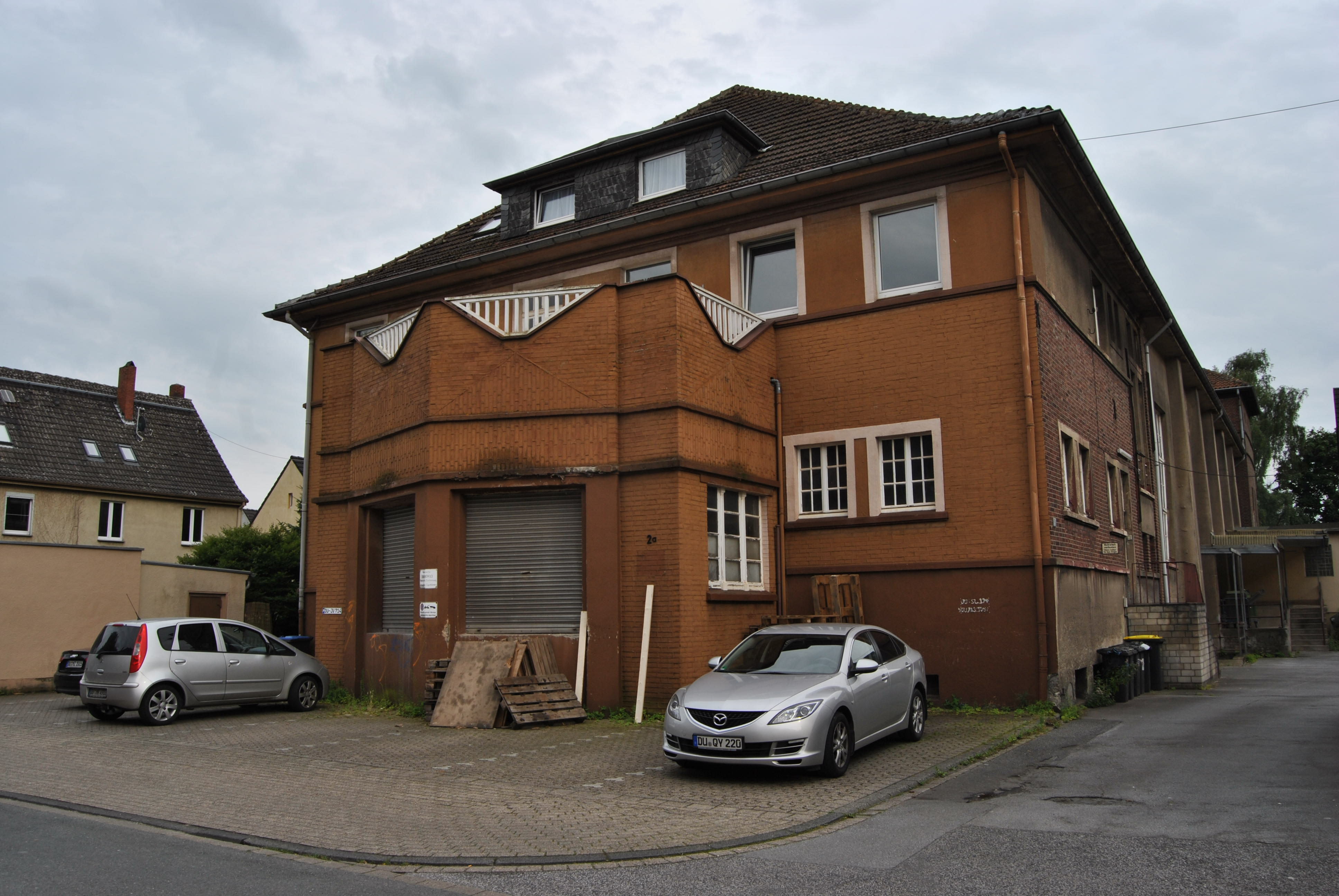 This photograph was taken with a Nikon D3000 This image shows a heritage building in Germany, located in the North Rhine-Westphalian city Duisburg. Saalbau (ehem. Gesellschaftshaus, An den Platanen 2a) in der Siedlung Wedau - Denkmalliste Duisburg, Nr. 553, sowie Teil des Denkmalbereichs Nr. 3 - Objektkoordinaten: 51.23'31.89"N, 6.47'53.62"E